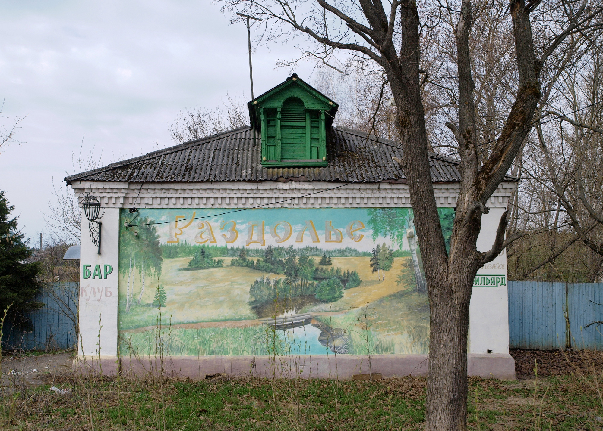 Village of Sharapovo, Odintsovsky District, Moscow Oblast.